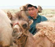 Camel and farmer in the Gobi